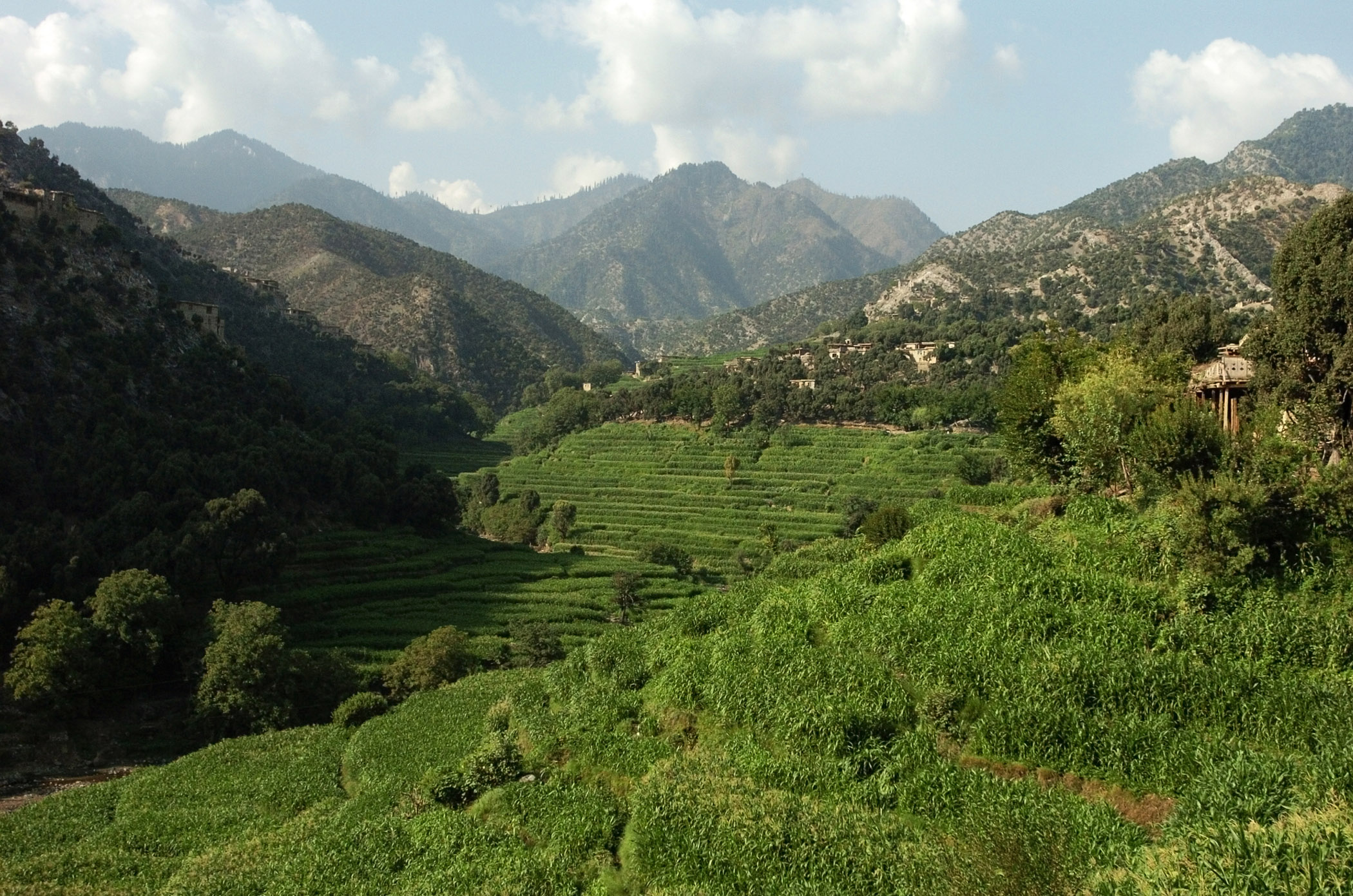 U.S. service members deployed to Kunar province, Afghanistan's Korengal Valley, endure almost daily gun battles and have seen some of the toughest fighting in Afghanistan. (Photo ID: 197551)